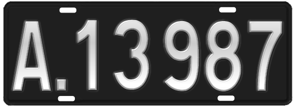 First Brazilian vehicle identification plate, circa 1901